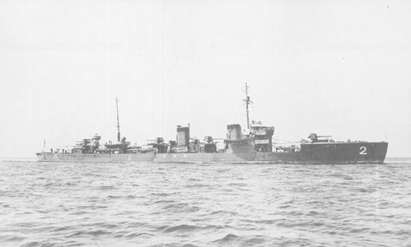 YAKAZE, Minekaze class destroyer of Imperial Japanese Navy.